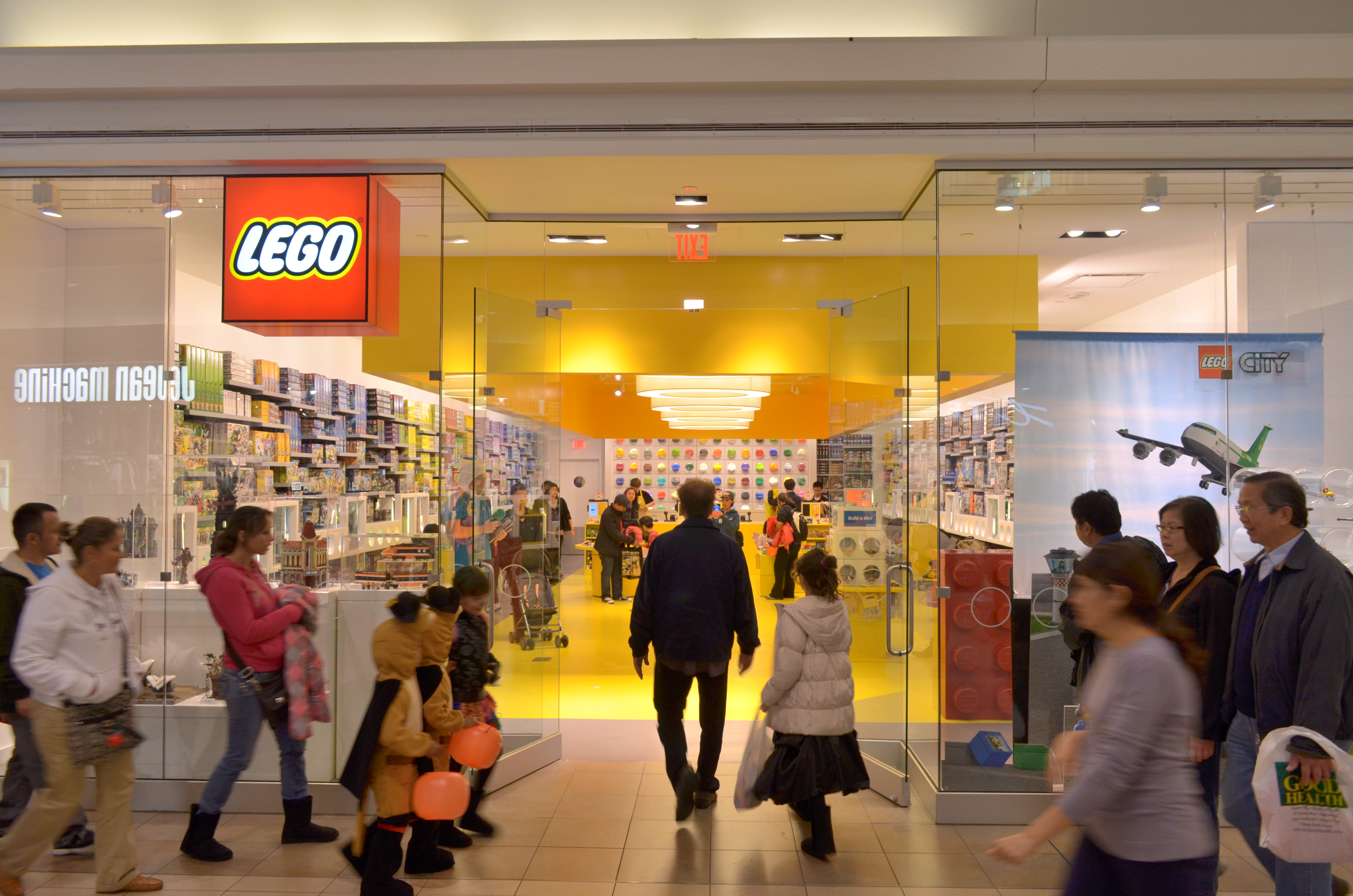 LEGO Store at Fairview Mall